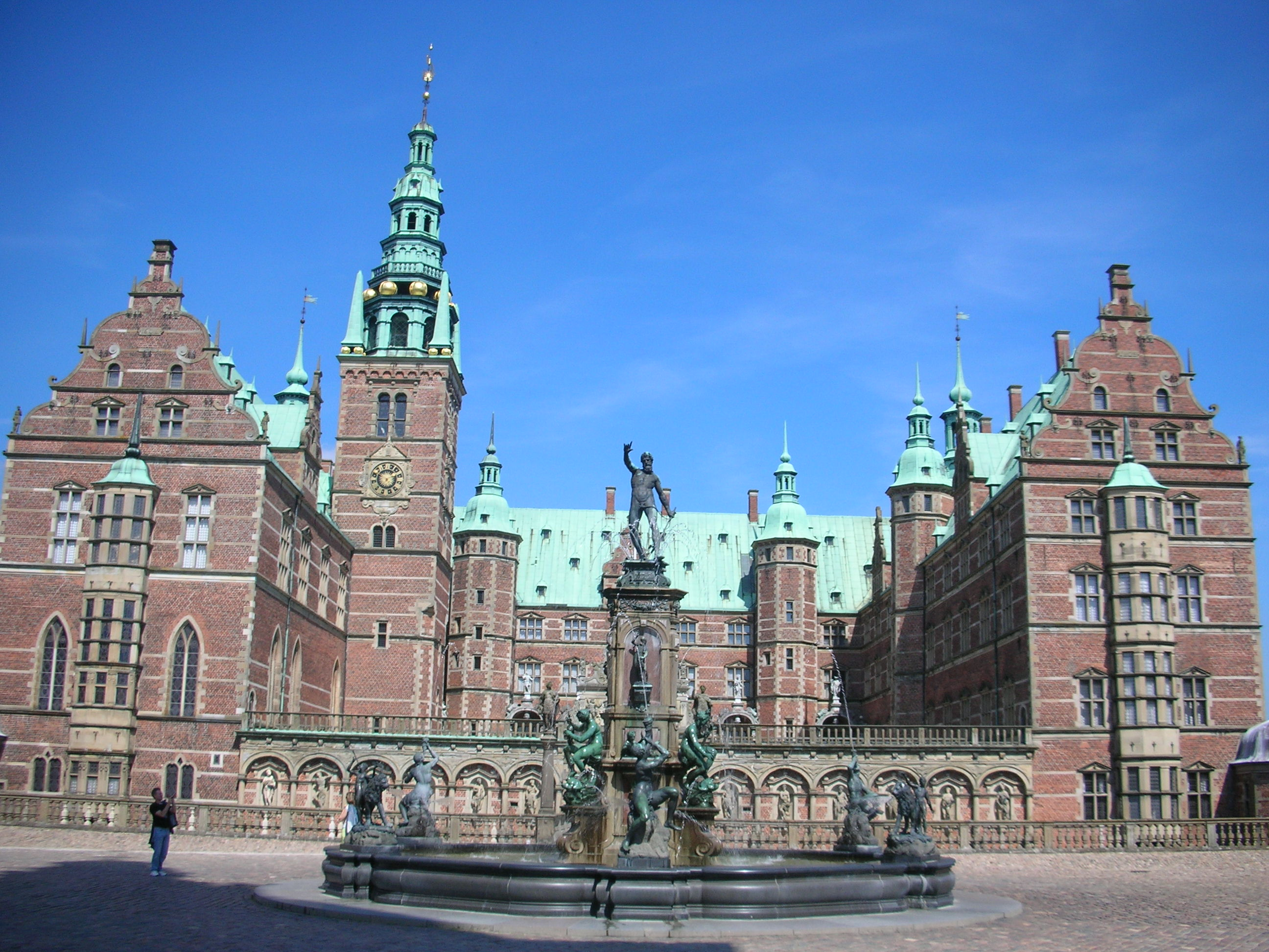 Frederiksborg castle and its fountain in Hillerod (Denmark)